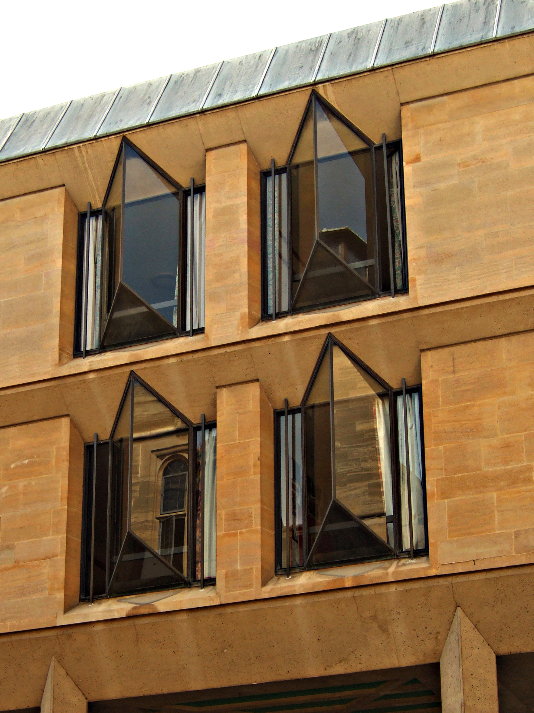 The Old Members' Building at Jesus College, Oxford. Architect J Fryman, The Architects Design Partnership 1969-71